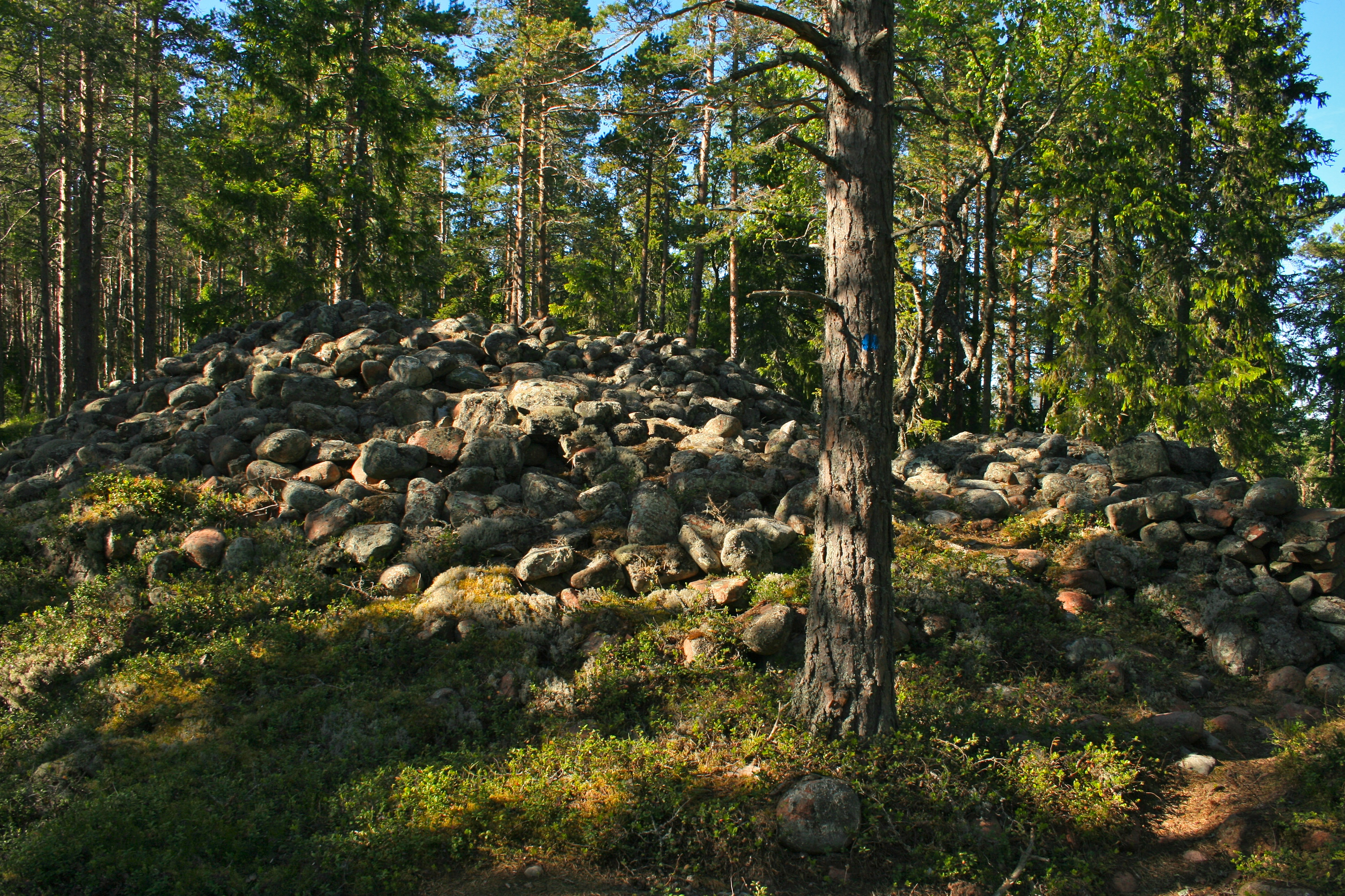 Prehistorical cairn close to Näskebodarna in Skuleskogen national park.